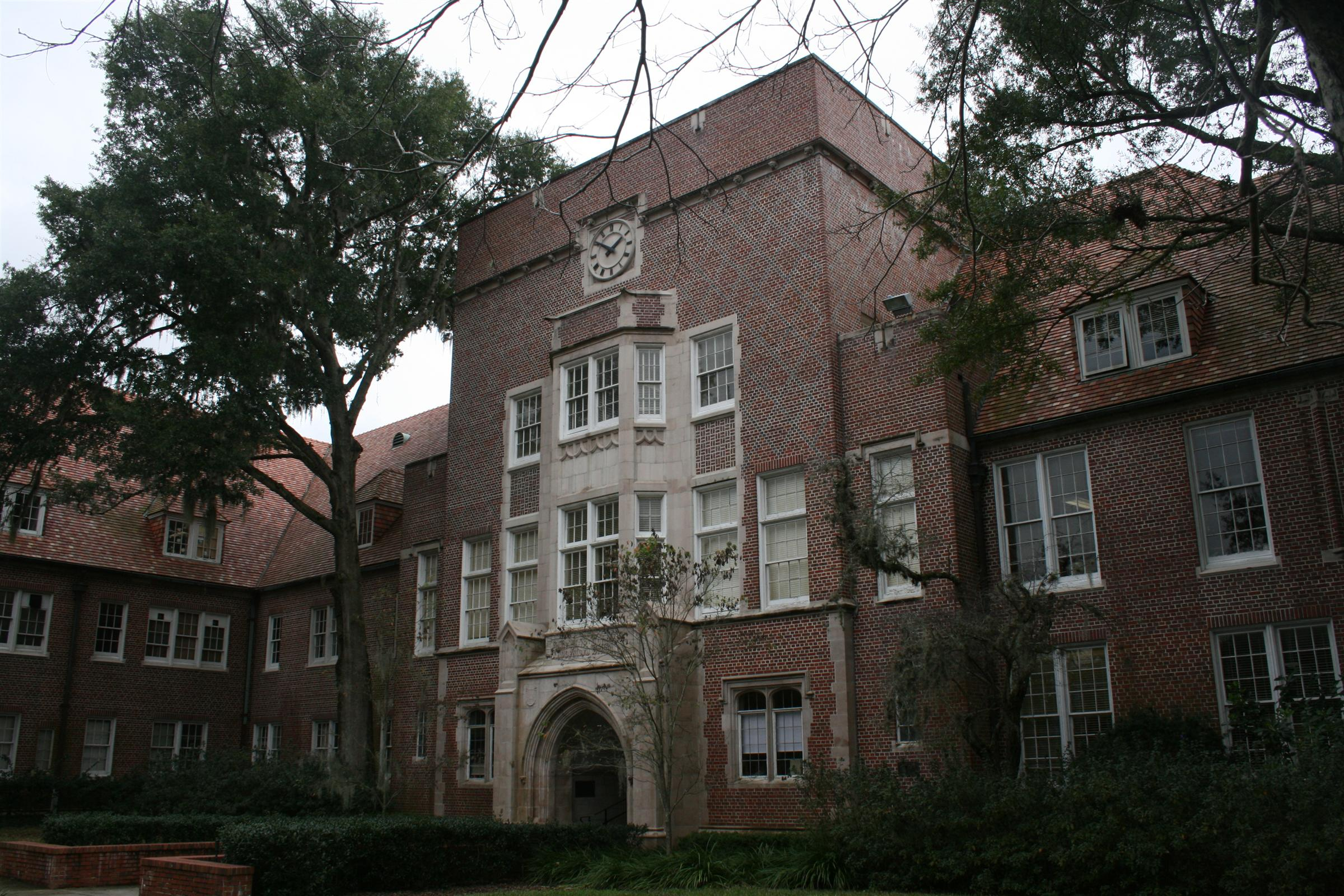 On 5 January 2007 I took pictures of most of the buildings on the UF campus that are designated National Historic Places. The only two buildings I didn't take pictures of are the Old WRUF station building and the Women's Gym. The day was overcast and about to rain so the skies aren't so great, but I think they get the job done. If I get any better shots of these buildings I'll upload them in place of the older ones. This message will be the same on all the images. --Douglas Whitaker 05:58, 6 January 2007 (UTC)